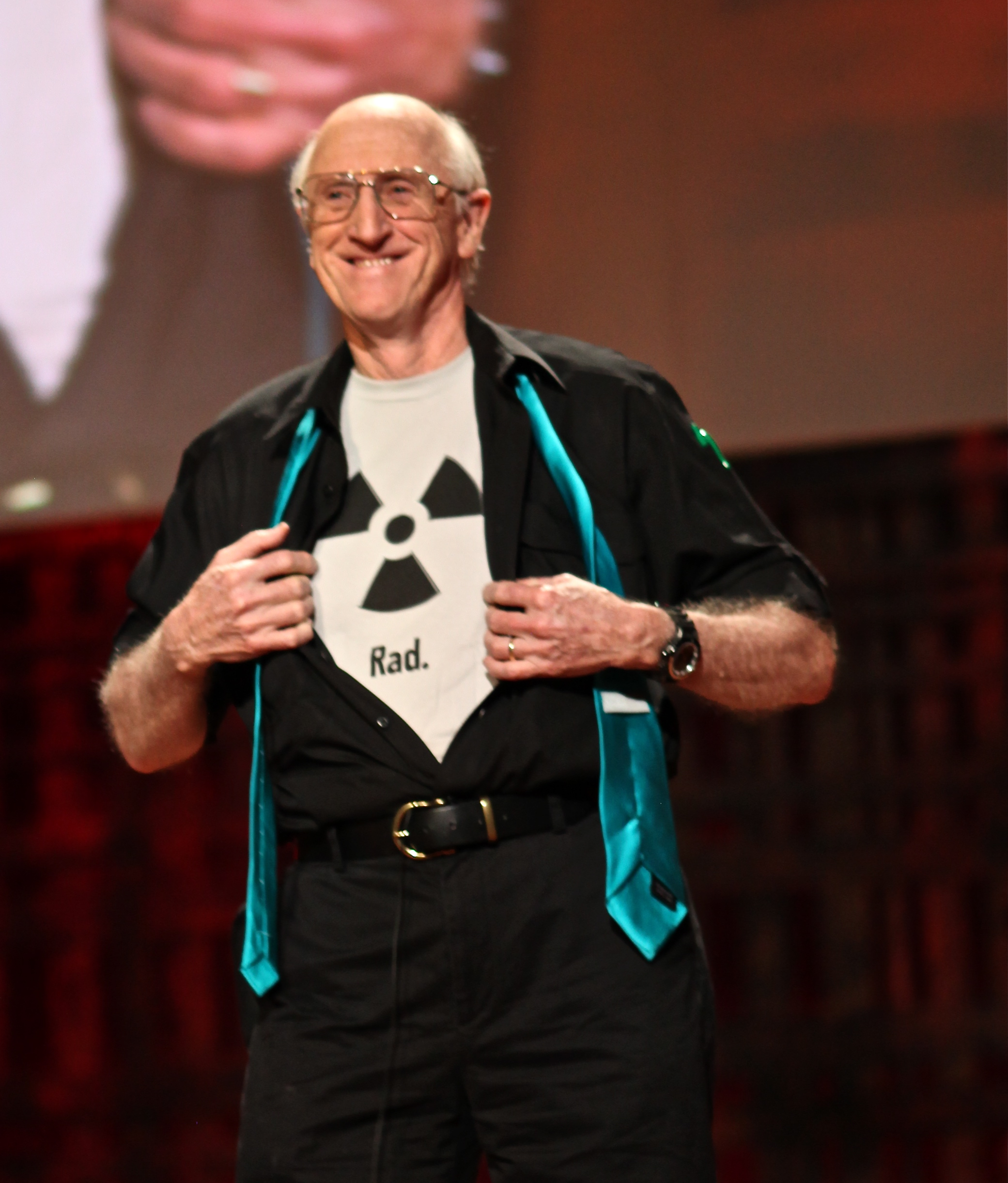 Stewart Brand bears his chest at the end of a nuclear power debate at TED.